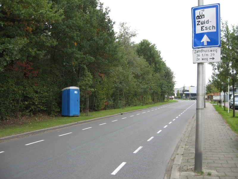 Dutch Provincial road 744 in Albergen